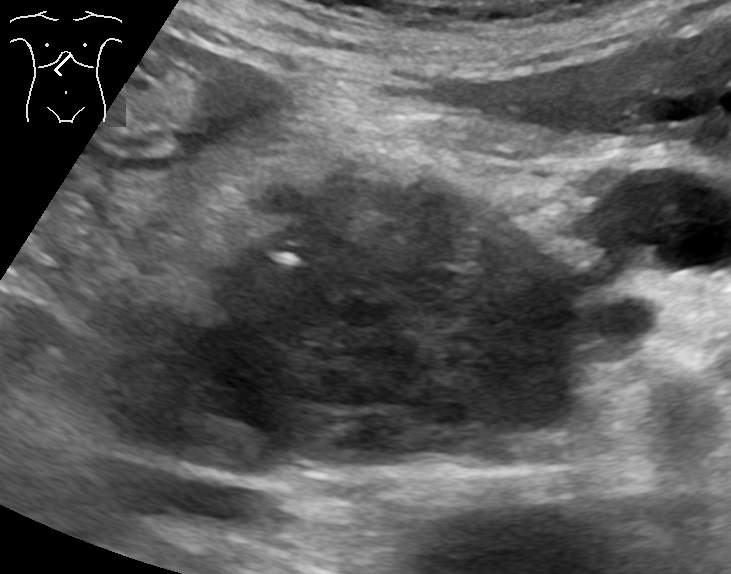 editAn 86 year old man with known pancreatic cancer (presumably adenocarcinoma), seen incidentally on CT 2 months prior, then measuring 3 cm. The patient now presents with hyperbilirubinemia. Abdominal ultrasonography with Doppler shows the following: The cancer in the pancreatic head is seen as hypoechoic, and has grown to 4.5 cm. A dilated pancreatic duct is seen to the right of it. Image of the dilated pancreatic duct in the body of the pancreas. It is colorless (black) in contrast to blood vessels (splenic vein closest below, and superior mesenteric artery at bottom)) which have Doppler signal. Also dilated intrahepatic bile ducts. They are colorless (black) in contrast to blood vessels (portal vein near center, and hepatic artery to the right of it) which have Doppler signal.